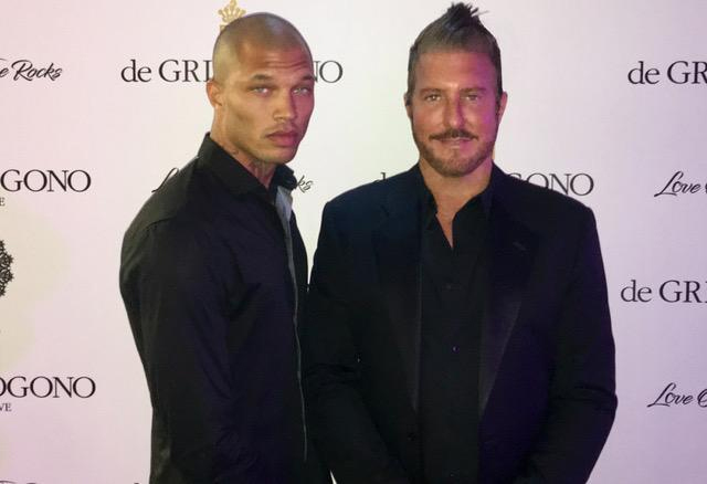 Jeremy Meeks and manager Jim Jordan at Cannes Film Festival, 2017.